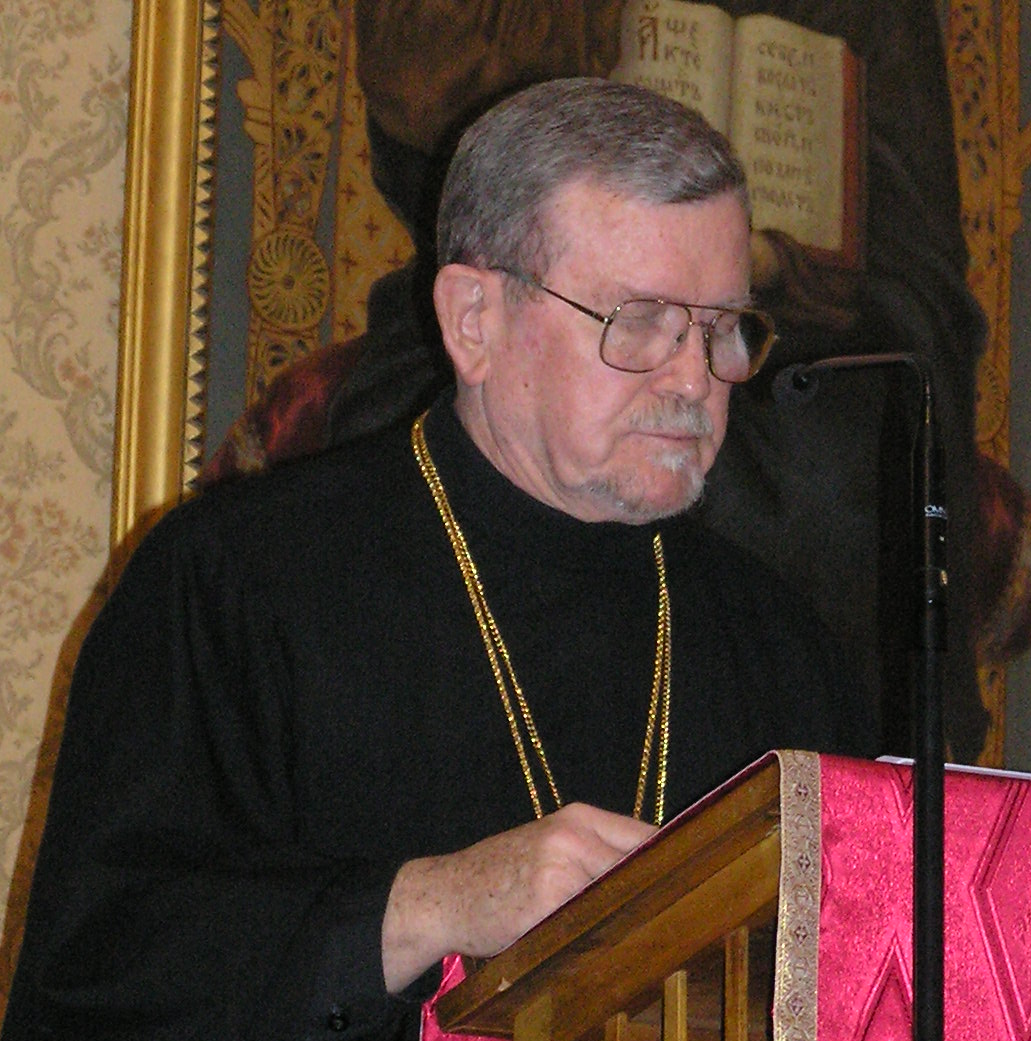 Archimandrite Robert Francis Taft SJ speaking at a conference in Russicum in 2006 (40th anniversary of the death of Vendelín Javorka SJ)